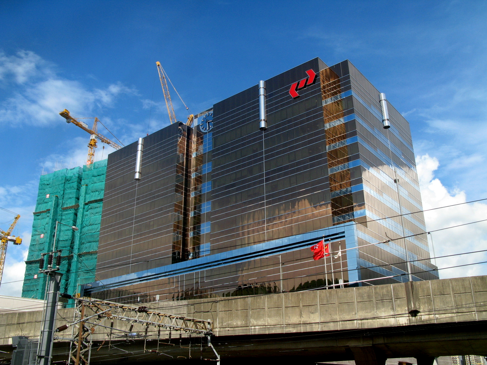 Fo Tan Railway House - Kowloon-Canton Railway Corporation (KCR) headquarters